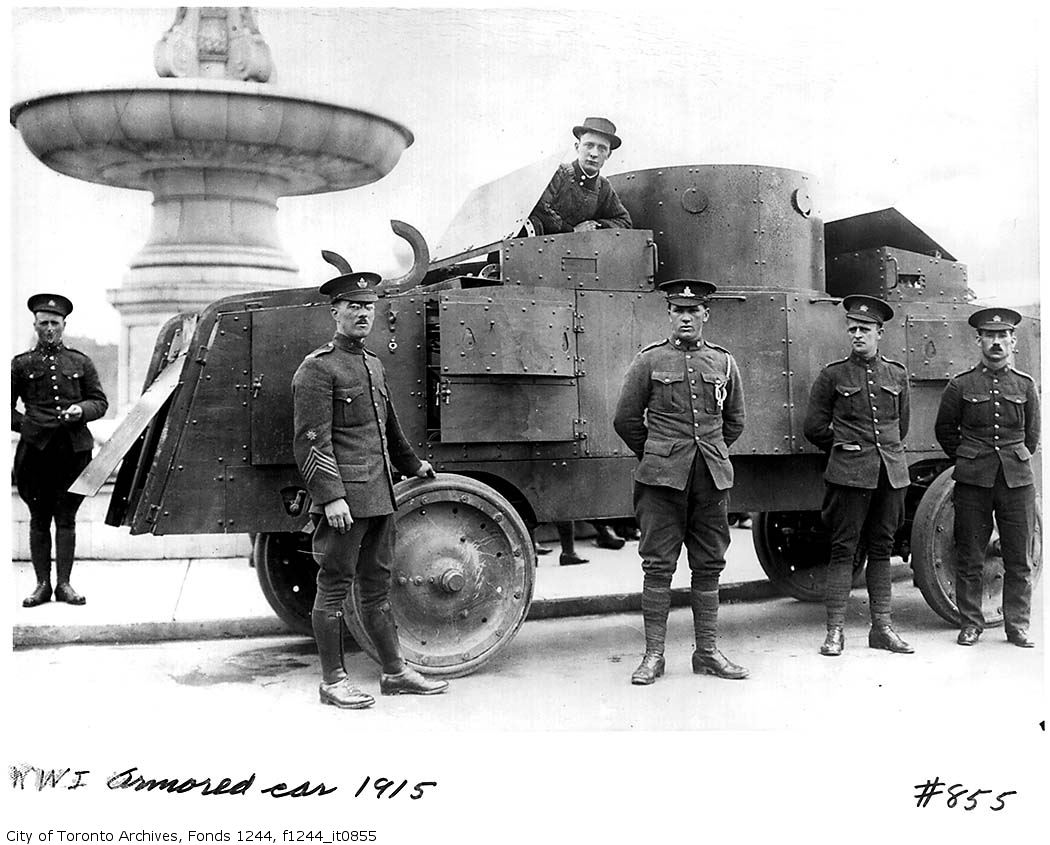 A Jeffery armoured car, likely of the Eaton Motor Machine Gun Battery, seen in Toronto in 1915.